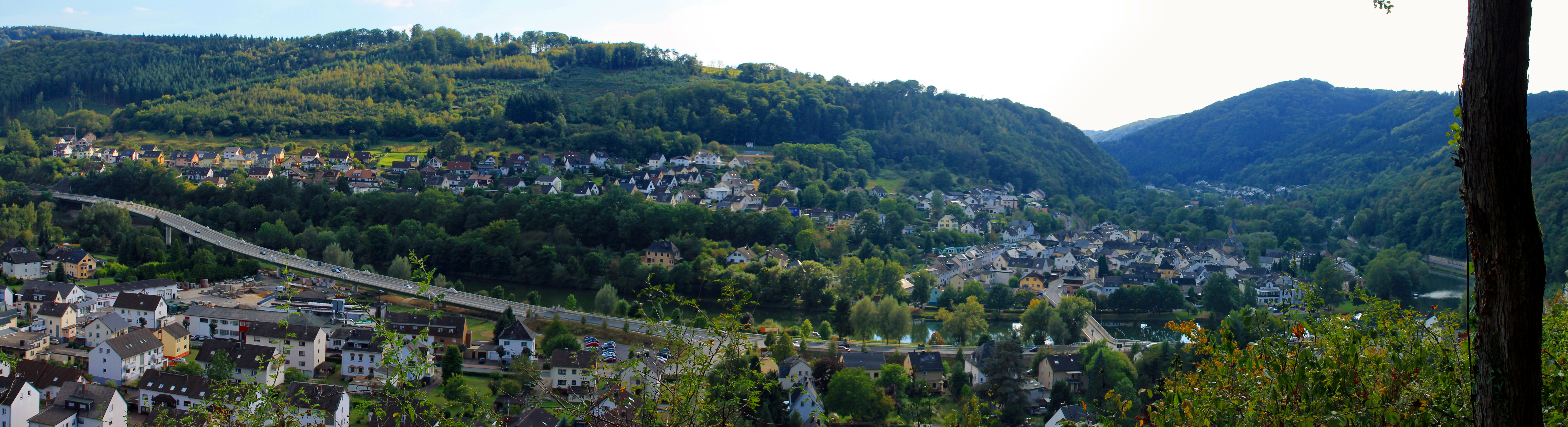 Panoramic view of Nievern, taken from above Fachbach on the opposite side of the valley